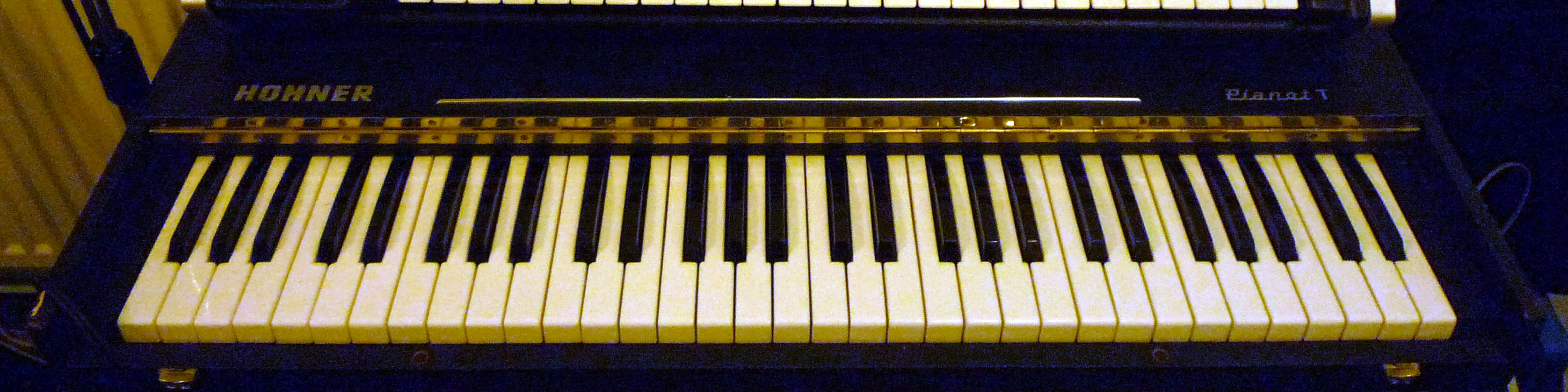 my Hohner Pianet. No, they never go out of tune.